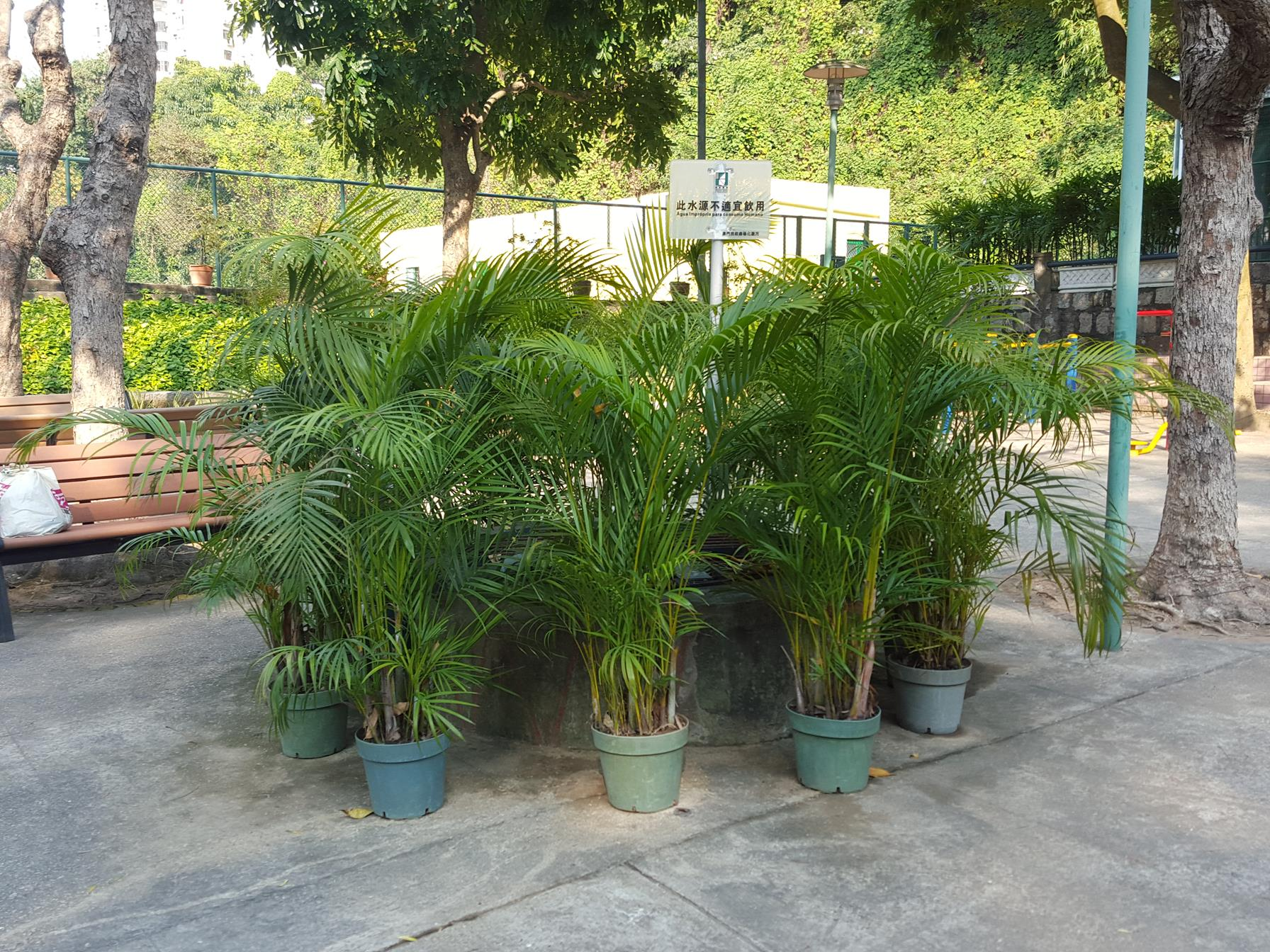 A well in Flora Garden